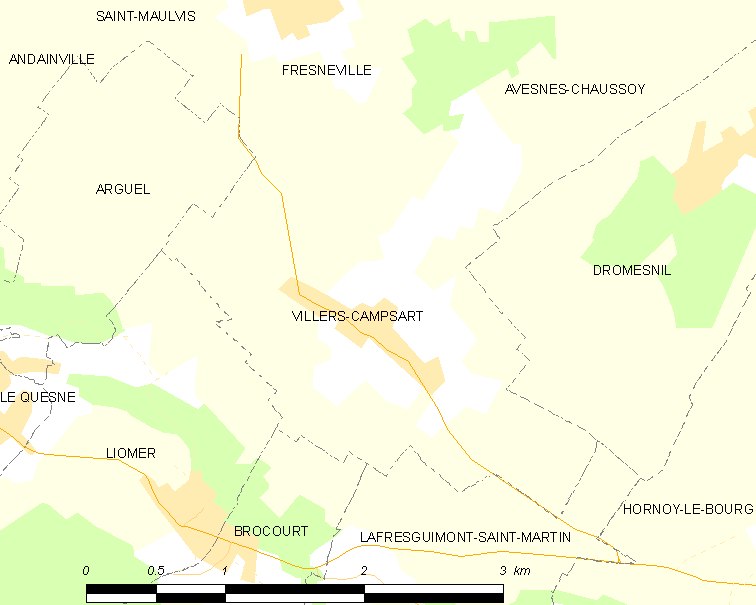 Map of French municipality Villers-Campsart